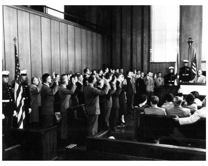 Thirty-nine of the German-born scientists at the U.S. Redstone Arsenal, along with the wives of two of the Operation Paperclip group, were sworn in as U.S. citizens at a 1954 naturalization ceremony.